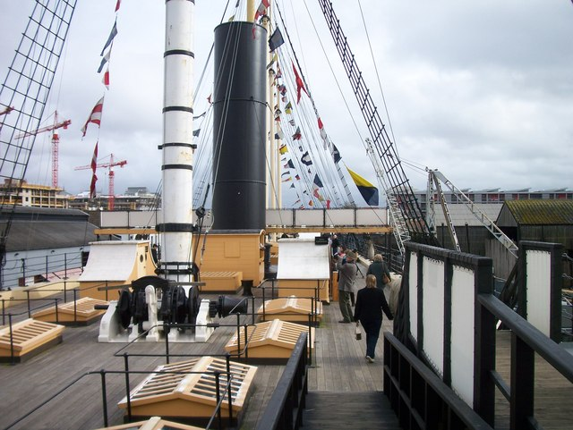 Aboard SS Great Britain